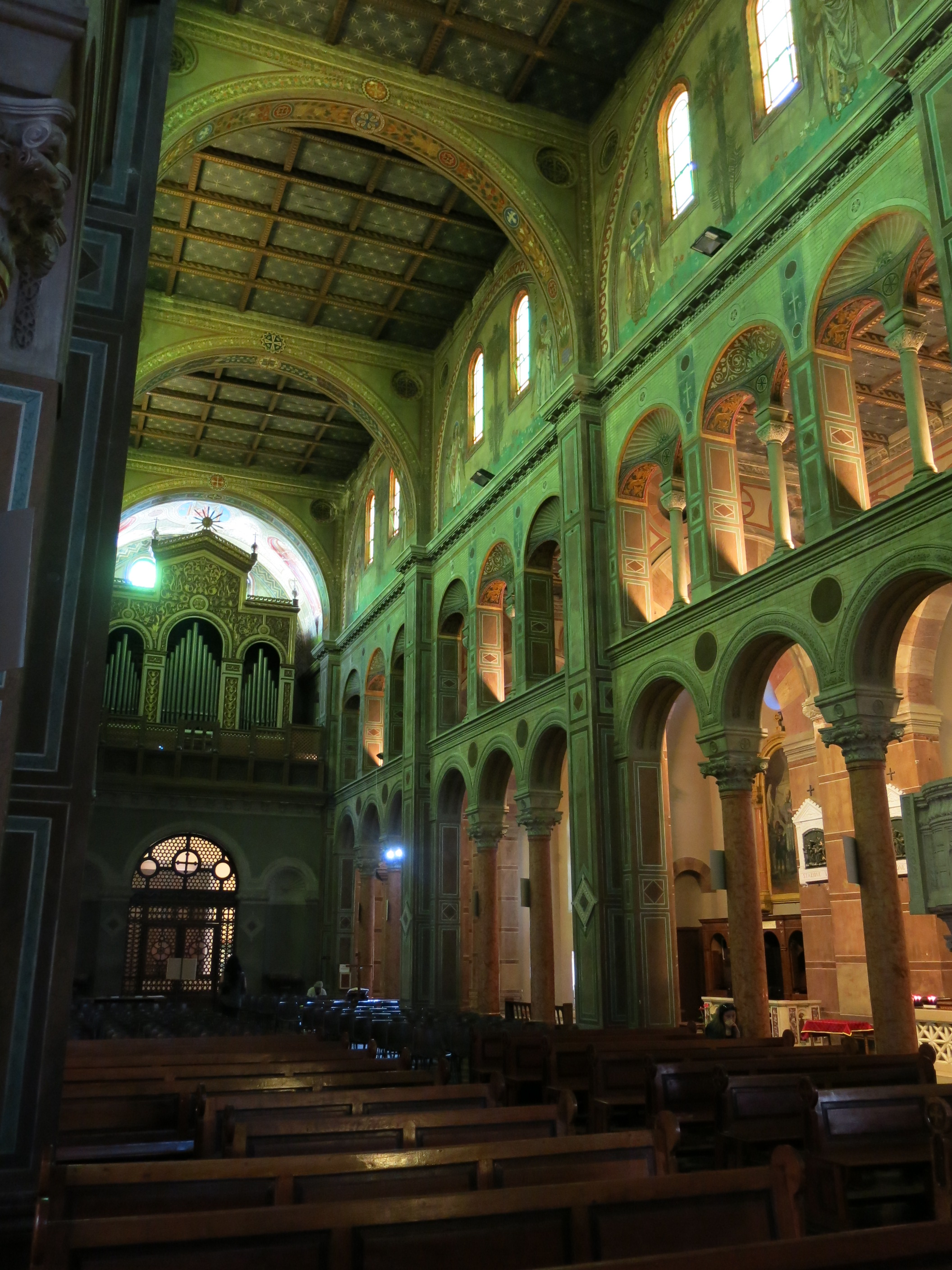 Organ of the church Nostra Signora della Neve (=Our Lady of the Snow) in La Spezia (Liguria, Italy).